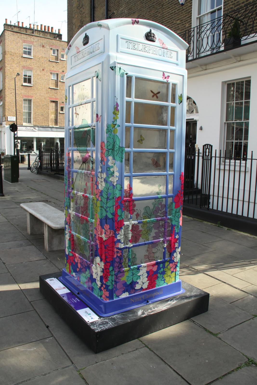 BT ArtBox project celebrating 25 years of Childline ArtBox Title: Chatterbox Artist: Nina Campbell Location: Wyndham Place Open-air art exhibition across London - Summer 2012